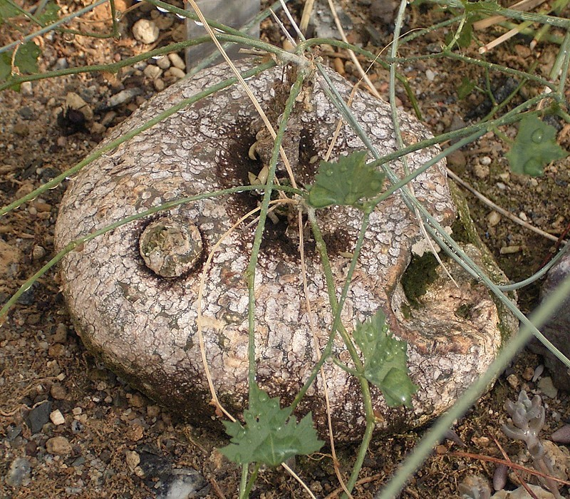 Ibervillea tenuisecta